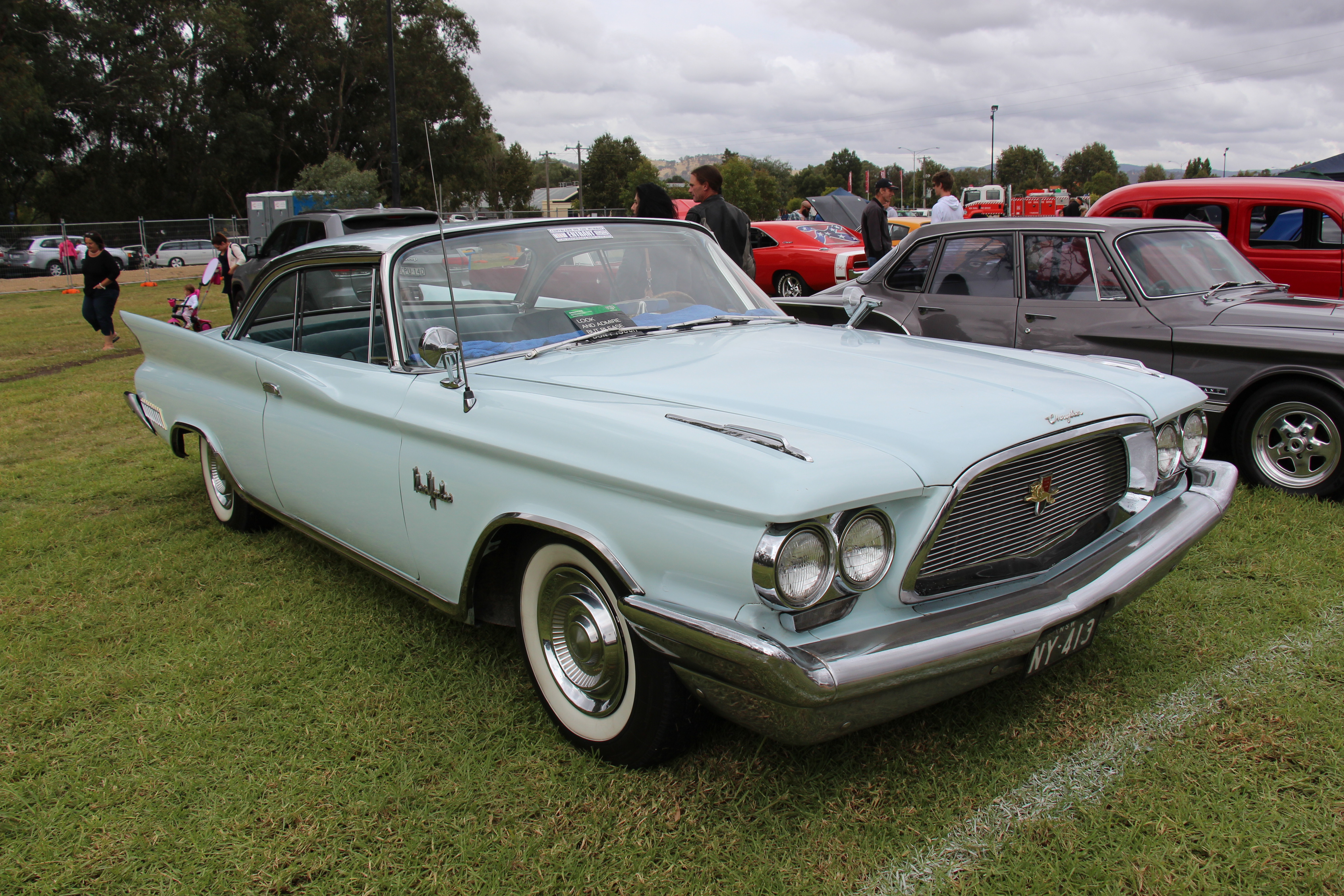 New Yorkers were available from 1940, this is the 1960-64 6th generation. Engines were carried over from the 5th generation, but the 6th had a new unibody construction. Available in 4 door sedan and hardtop, 2 door hardtop and convertible. Engines; 413 cu in RB Golden Lion V-8